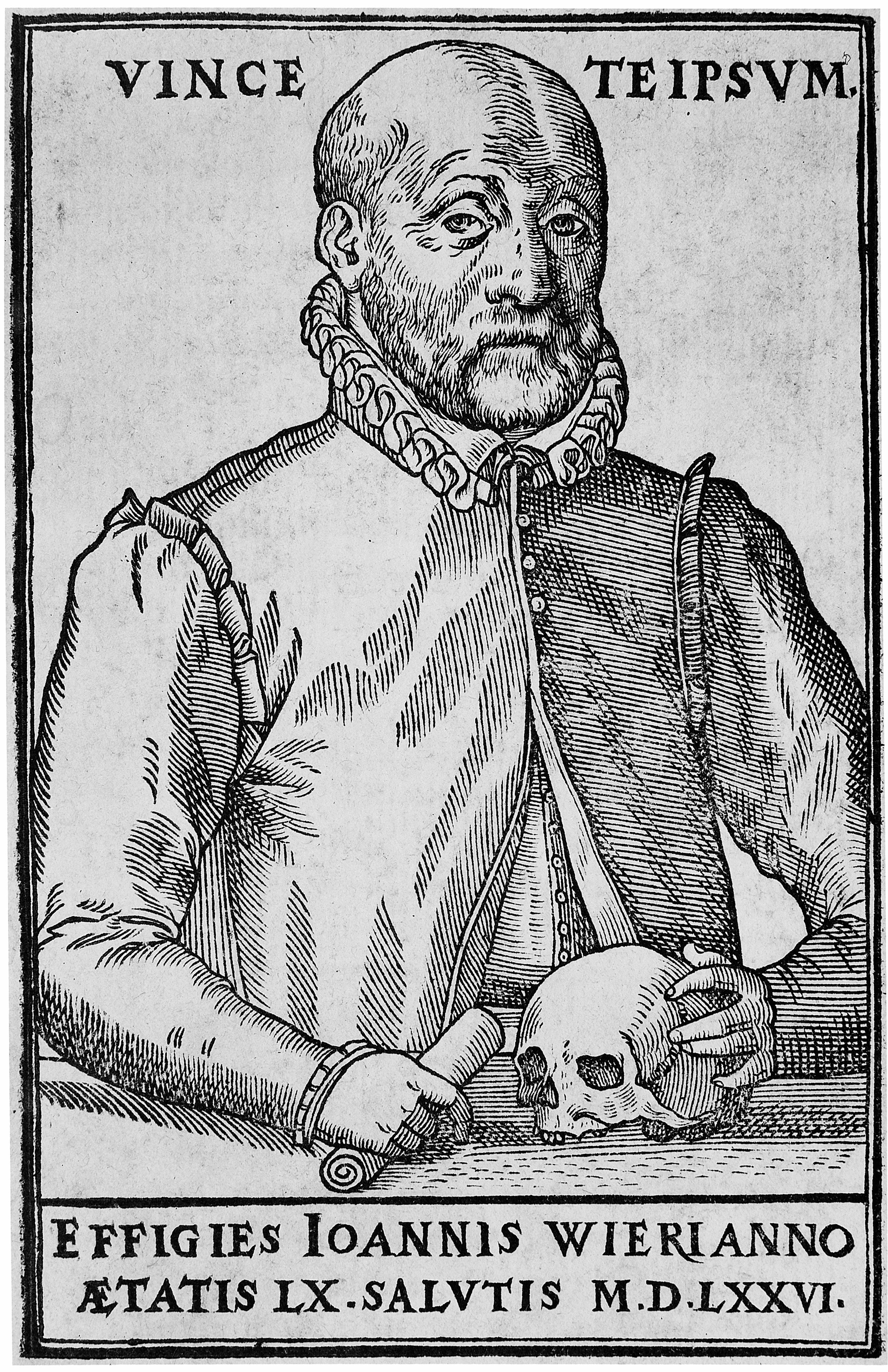 Portrait of Johann Wier. Rare Books Keywords: Psychiatry